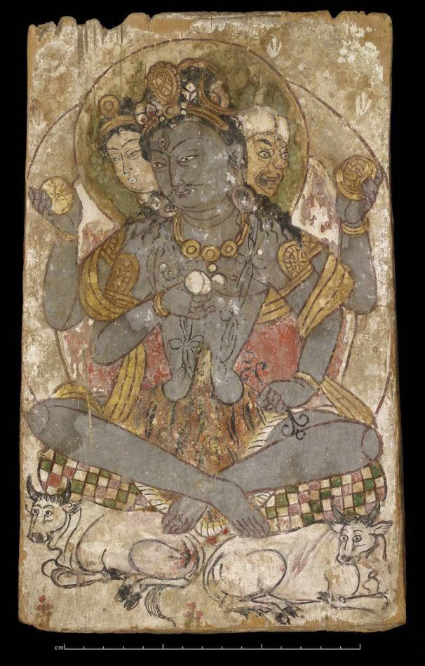 Seated Bodhisattva. Panel, front. Excavated at Dandan-Uiliq. D.VII.6 (found in dwelling D.VII at Dandan-Uiliq). Now collection of British Museum. Details on [1].